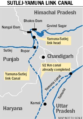 Photo from the Tribune